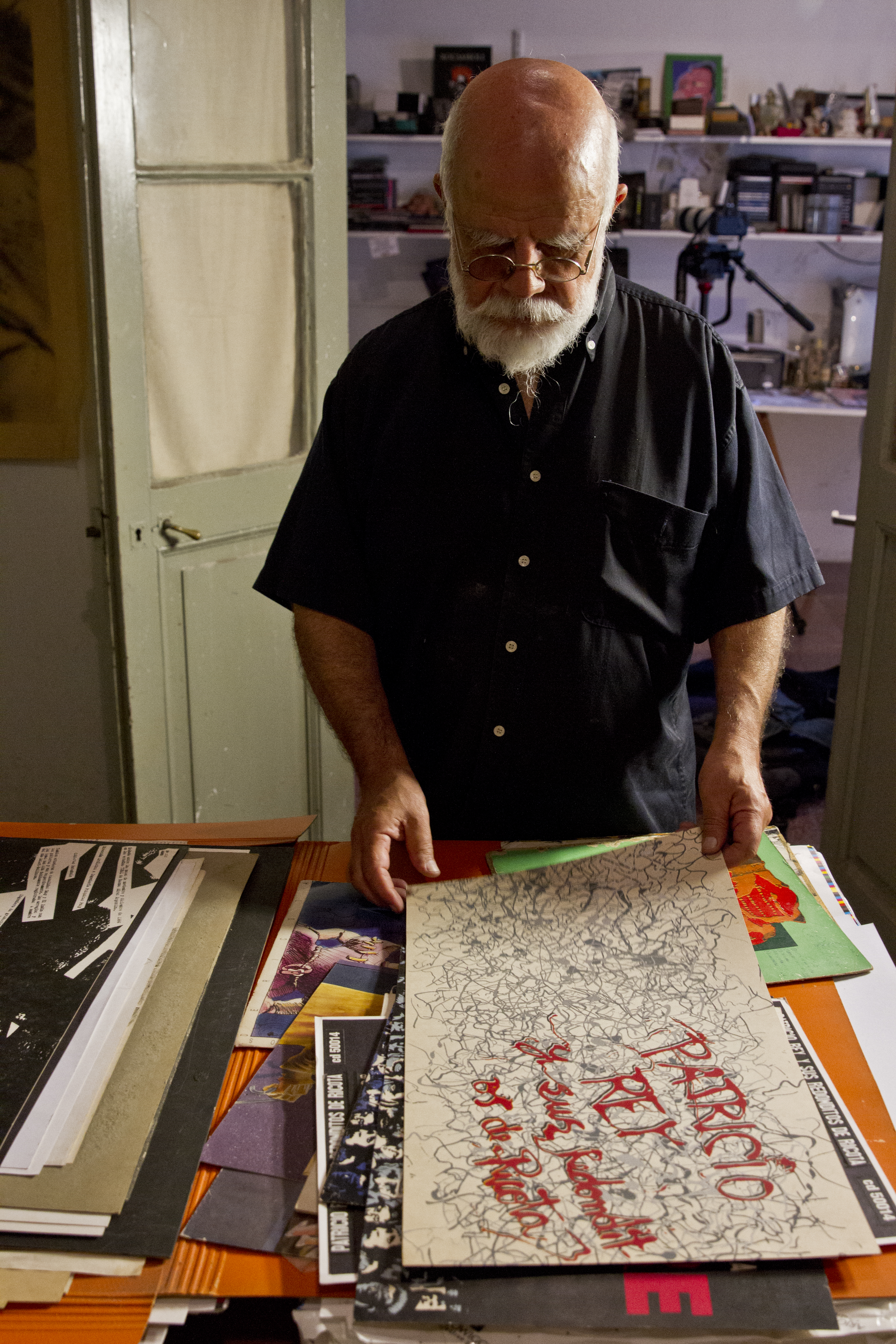 Ricardo Cohen -Rocambole-. Buenos Airs. 30 de noviembre de 2015.- Ministerio de Cultura de la Nación Foto: Augusto Starita / Ministerio de Cultura de la Nación.